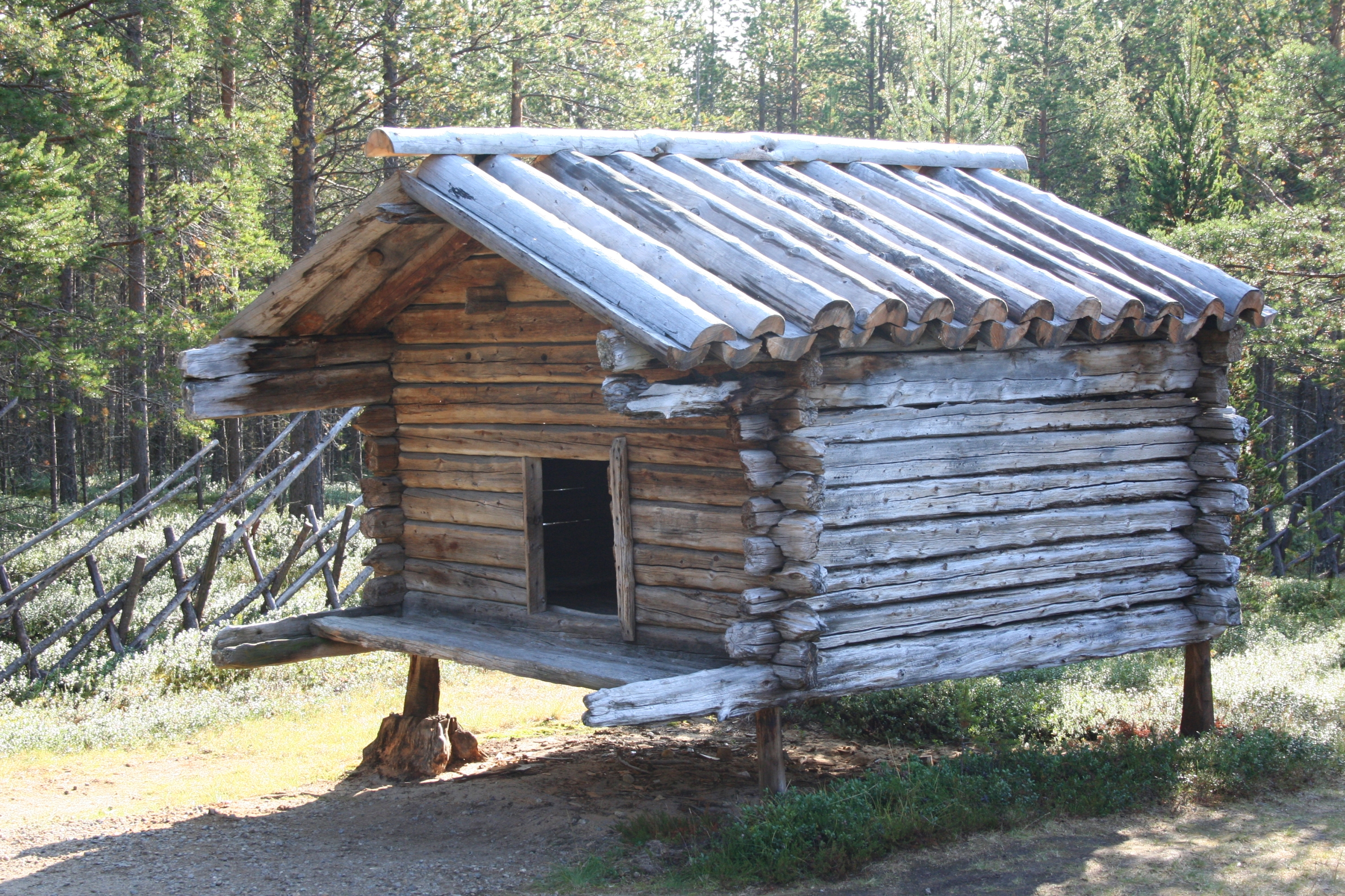 Sami Museum, Inari, Storage hut